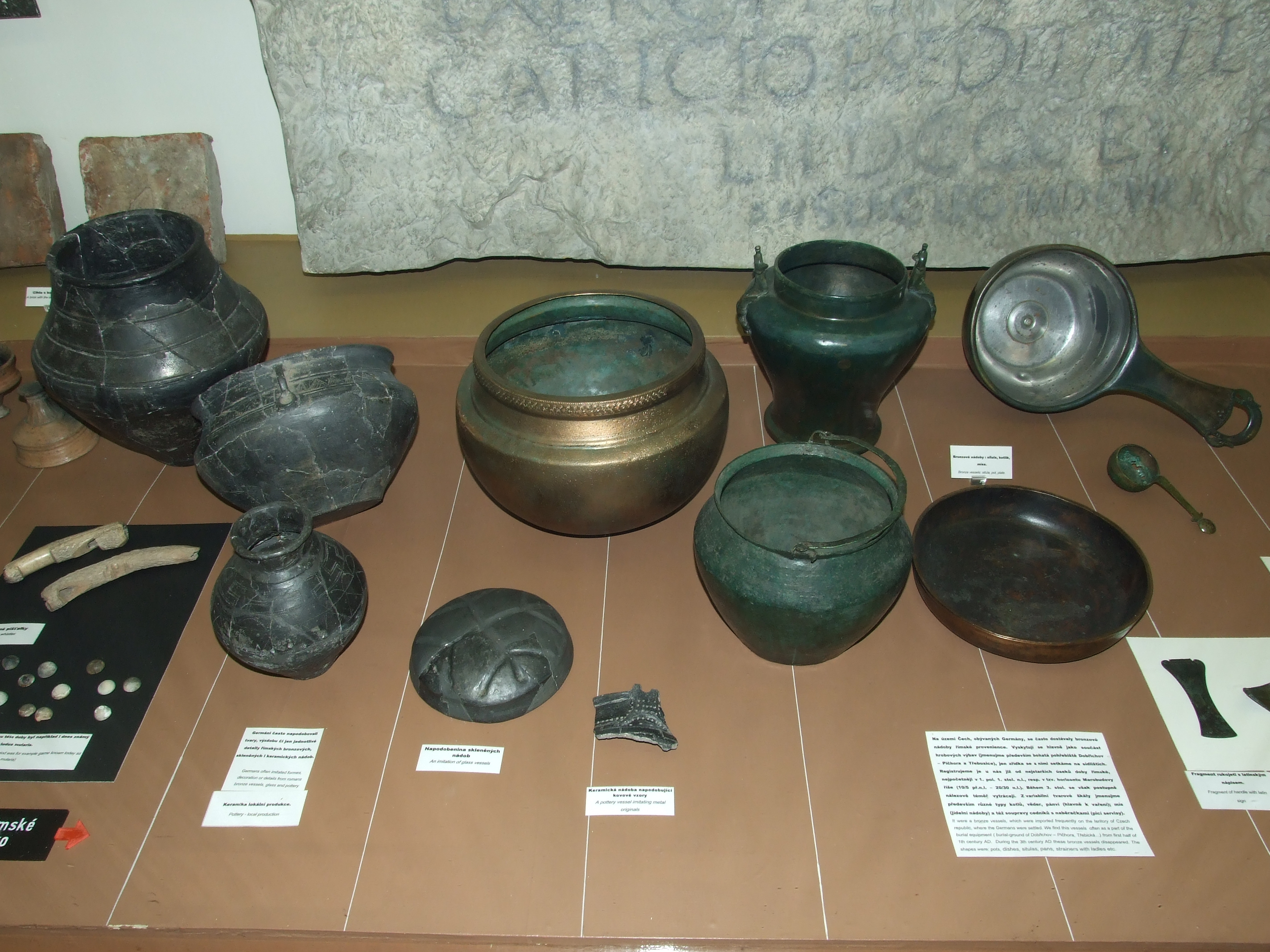 Prehistoric Times of Bohemia, Moravia and Slovakia, National Museum in Prague. Vessels from Early Roman Period; 1st/2nd century AD. Bronze vessels of Roman production were imported frequently on the territory of the Czech Republic, where the Germanics were settled. We find these vessels often as a part of the burial equipment (burial grounds of Dobřichov - Pičhora and Třebusice) from first half of 1st century AD. During the 3rd century AD these bronze vessels gradually disappeared. (left to right) Germanics often imitated forms, decorations or details from Roman bronze vessels, glass and pottery. Pottery - local production An imitation of glass vessels A pottery vessel imitating metal original. Fragment of handle with Latin inscription.